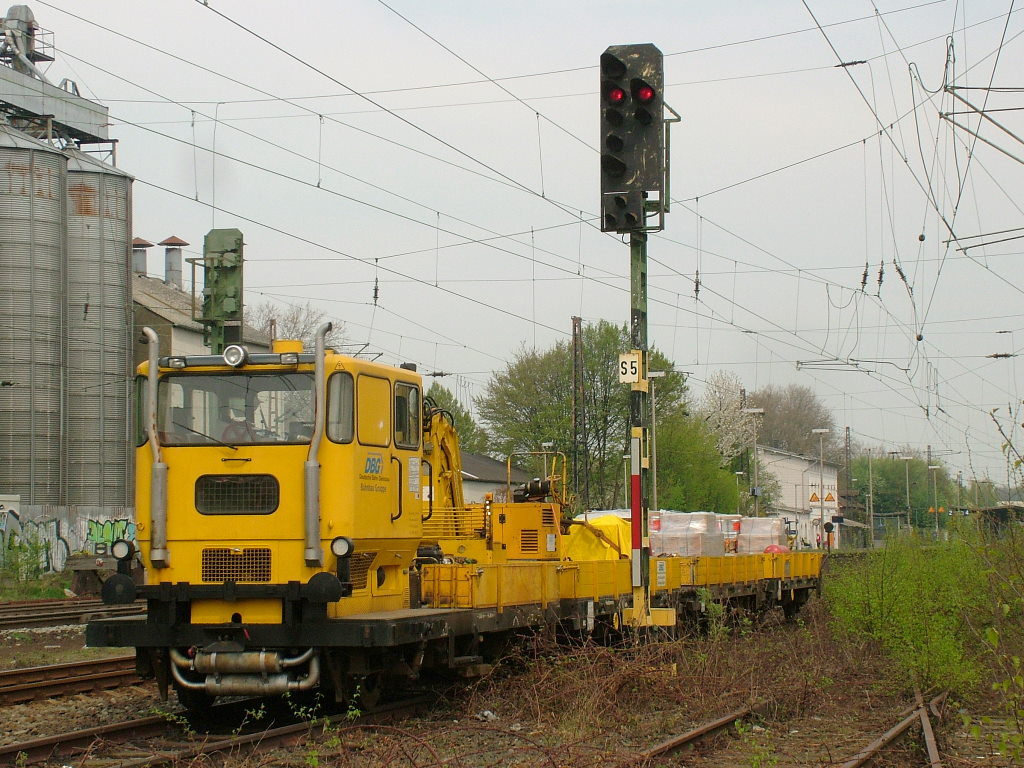 track maintenance vehicle Klv 53-4742 in use at Kamen, Germany